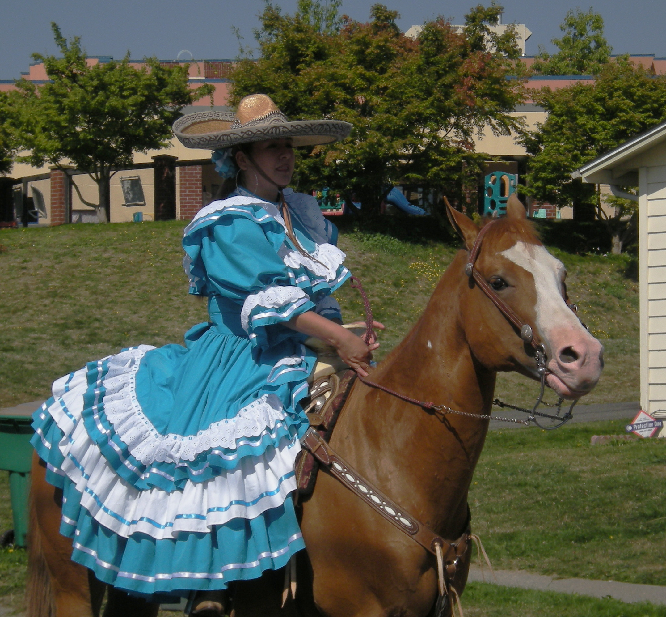 One of the few women among about 80 riders (many, like this one, in traditional Mexican dress) on horses, 2008 Fiestas Patrias parade, South Park, Seattle, Washington.